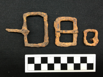 Photo taken by Kyra McCormick, Becca Leon, and LisaMarie Malischke